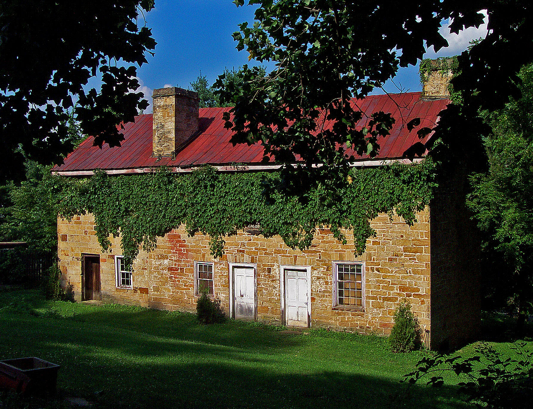 Front of the Eager Inn, located on Pike Lake Road north of Morgantown in Benton Township, Pike County, Ohio, United States. Built in 1797, it is listed on the National Register of Historic Places.